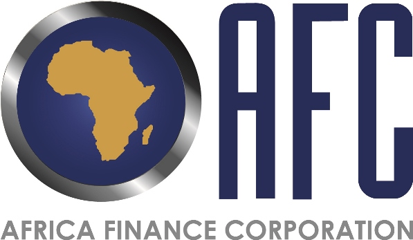 Africa Finance Corporation logo